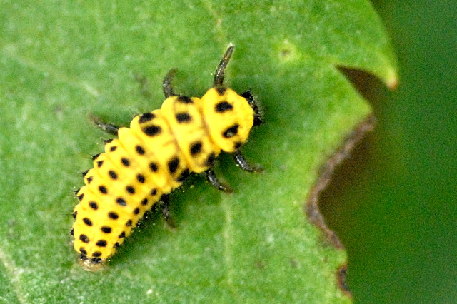 Picture taken in Commanster, Belgian High Ardennes . Species: Psyllobora vigintiduopunctata larva